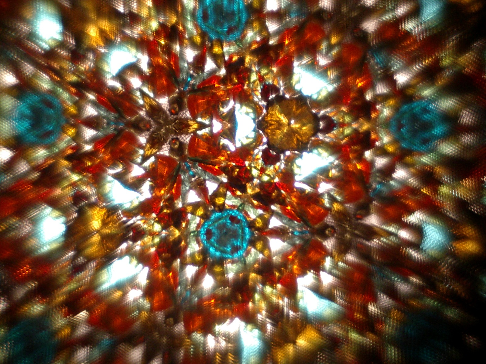 A multi-colored view of a kaleidoscope